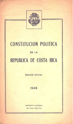 Constitucion Política de Costa Rica de 1949 book cover at National Library